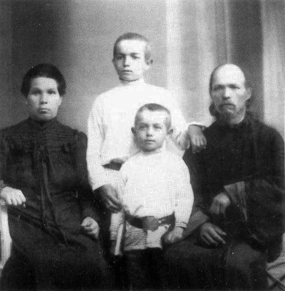 Сім'я Хасевичів (зліва): Феодотія Хасевич, Федір Хасевич, Ніл Хасевич і Антон Хасевич.